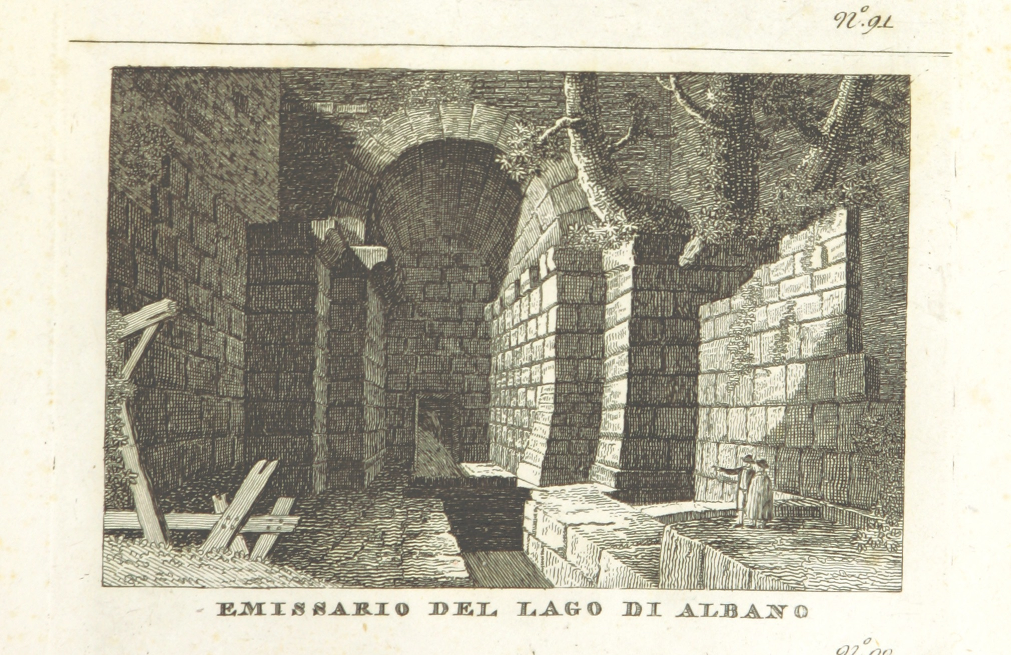 Title: "Vedute antiche e moderne le più interessanti della città di Roma, incise da vari autori, in numero 100. (Explication ... rédigée ... par E. Piale.)", "Appendix. Topography" Contributor: PIALE, Stefano. Author: Rome (Italy) Shelfmark: "British Library HMNTS 10131.h.1." Page: 113 Place of Publishing: Rome Date of Publishing: 1820 Publisher: V. Monaldini Issuance: monographic Identifier: 003147404